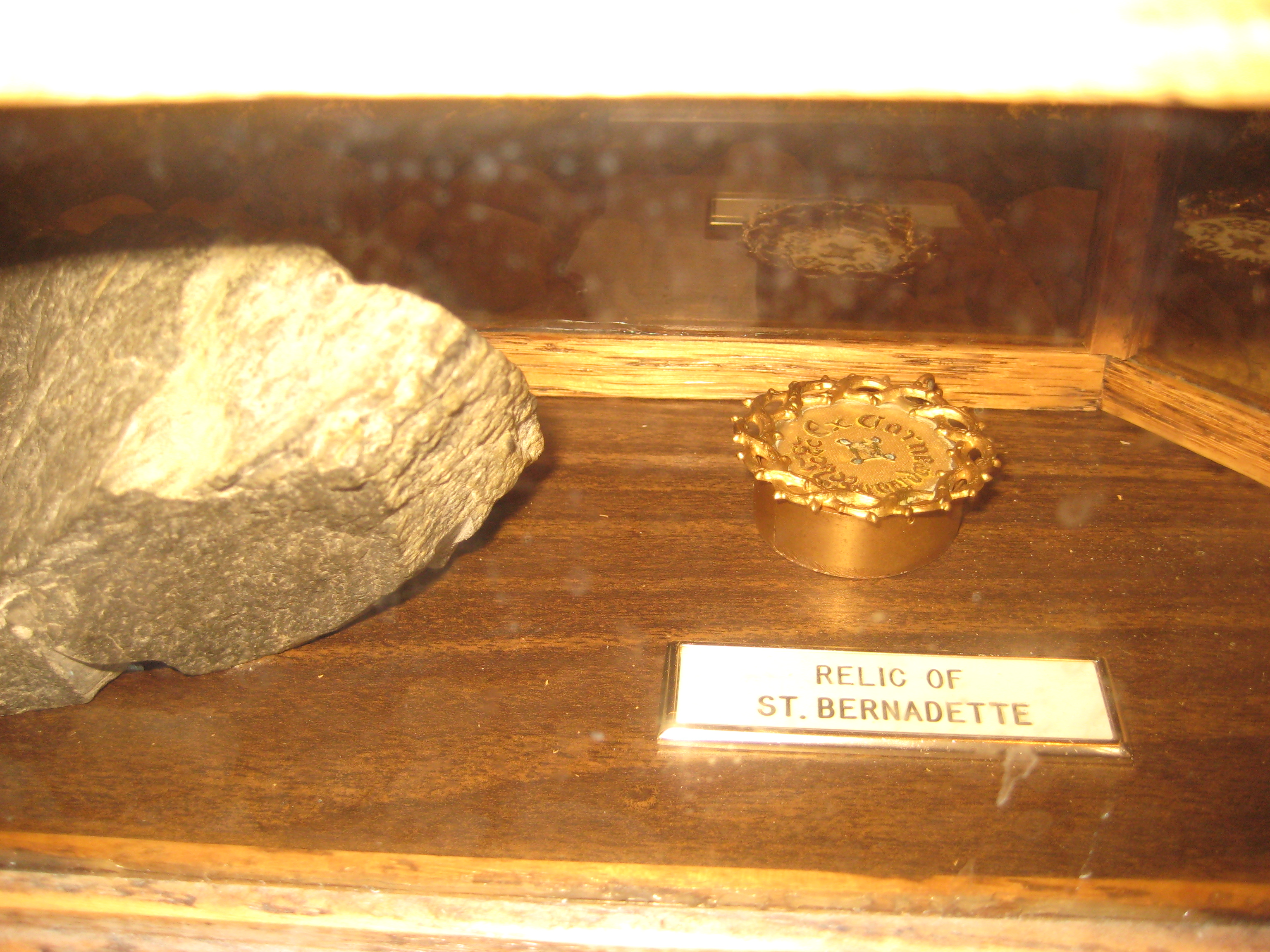 Relic of St. Bernadette Soubirous. The rock next to the reliquary is a stone from the grotto where the Marian apparition of Our Lady of Lourdes is said to have appeared. January 2009 photo by John Stephen Dwyer.